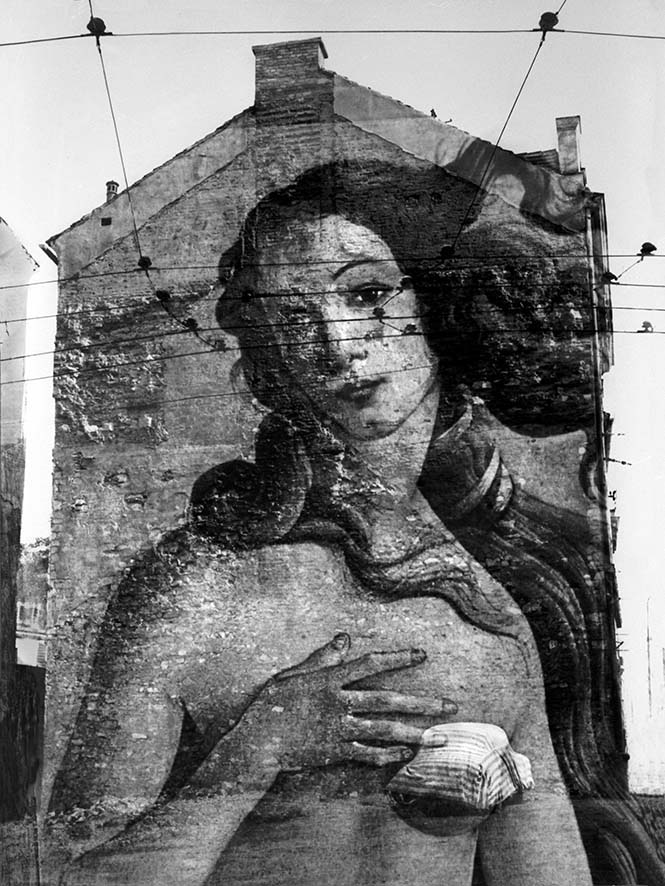 Jan Šplíchal, from the cycle Gables, 1965